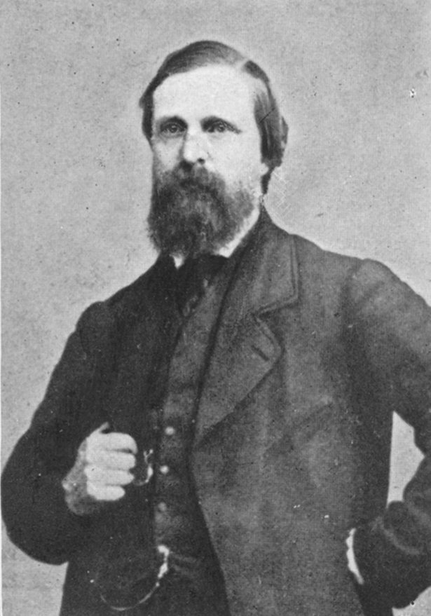 Half-length black-and-white portrait of Wisconsin judge John F. Potter holding his lapel with his right hand and with his left hand on his hip.